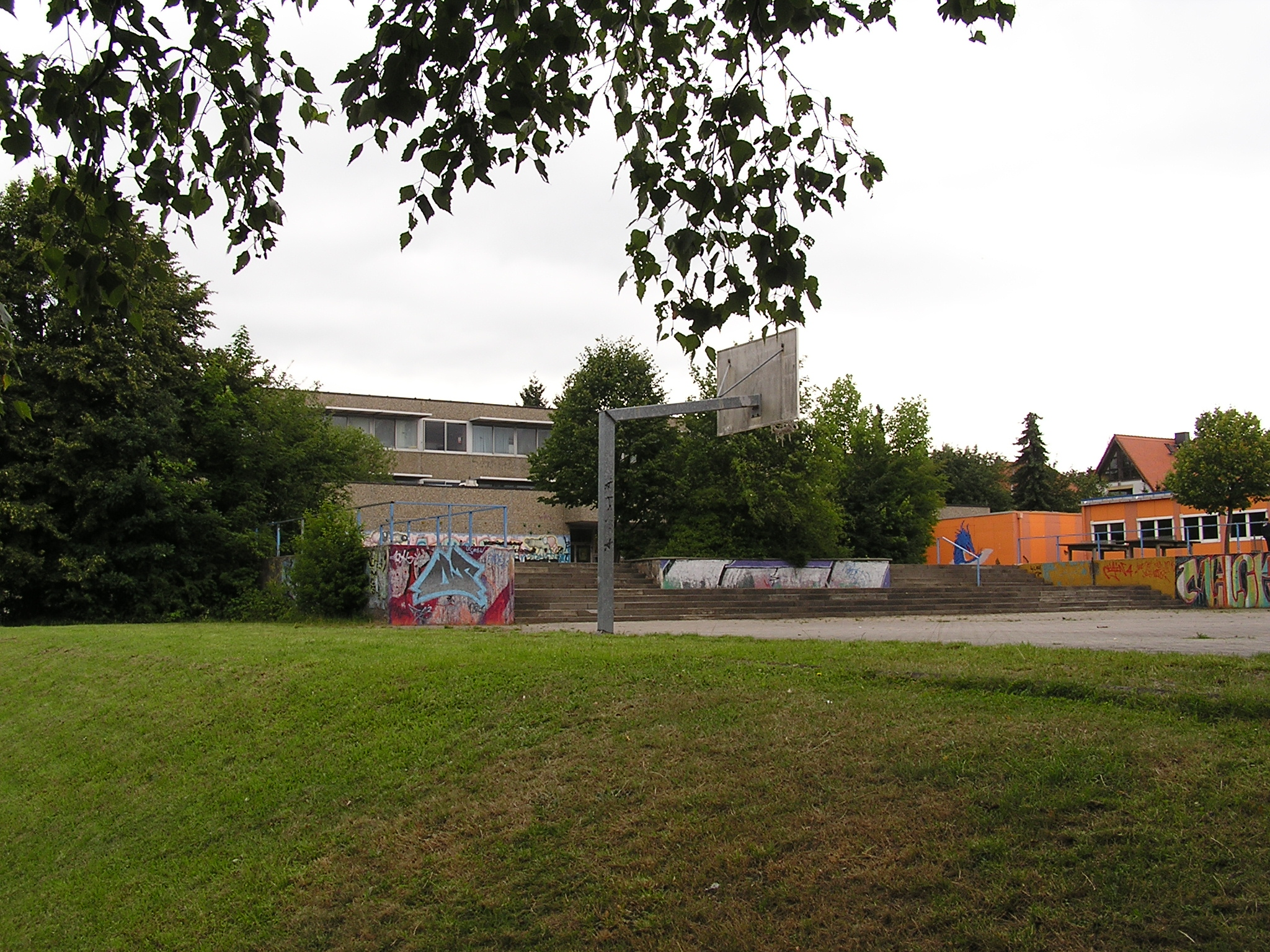 Philipp-Reis-Schule (Friedrichsdorf)